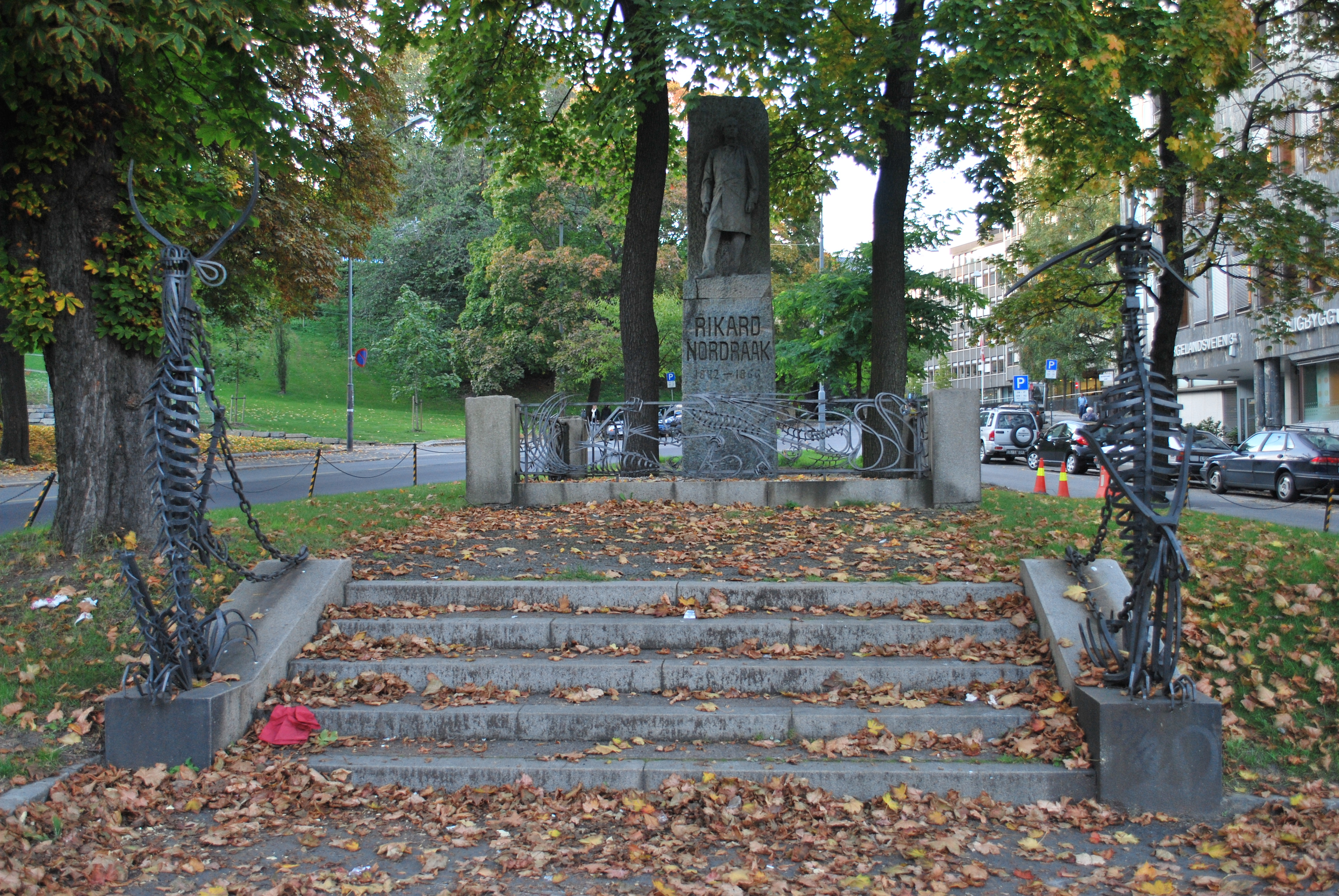 Nordraaks plass, Oslo. Monument by Gustav Vigeland